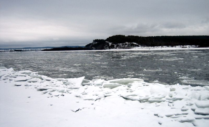 PRChina bank of the Amur River, in late fall, facing Russia